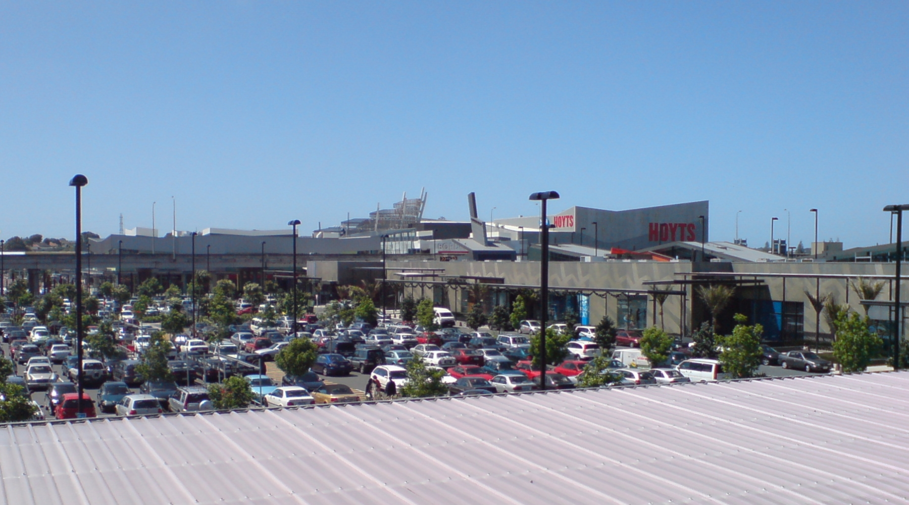 A view over the main carparking and length of the Sylvia Park Shopping Centre in Auckland City, New Zealand.